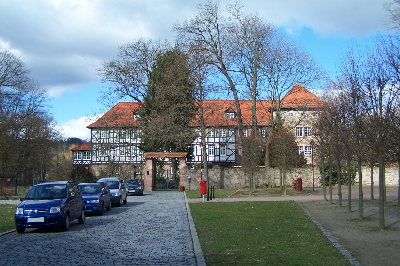 The castle in Stadtlengsfeld, viewing from east side.